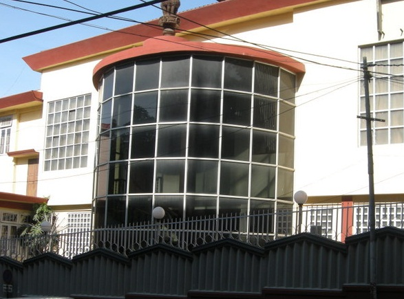 Mizoram Assembly House